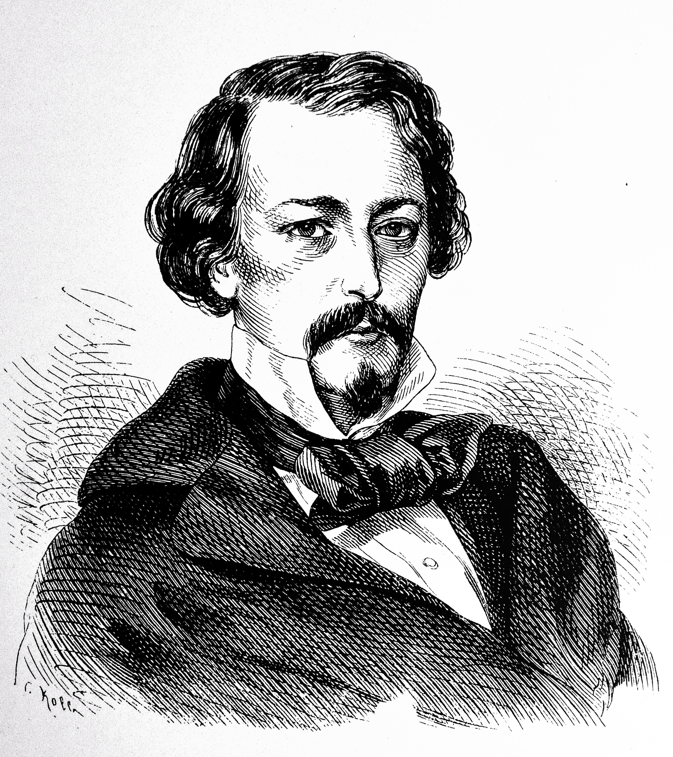 Pen drawing of Markus Pernhart